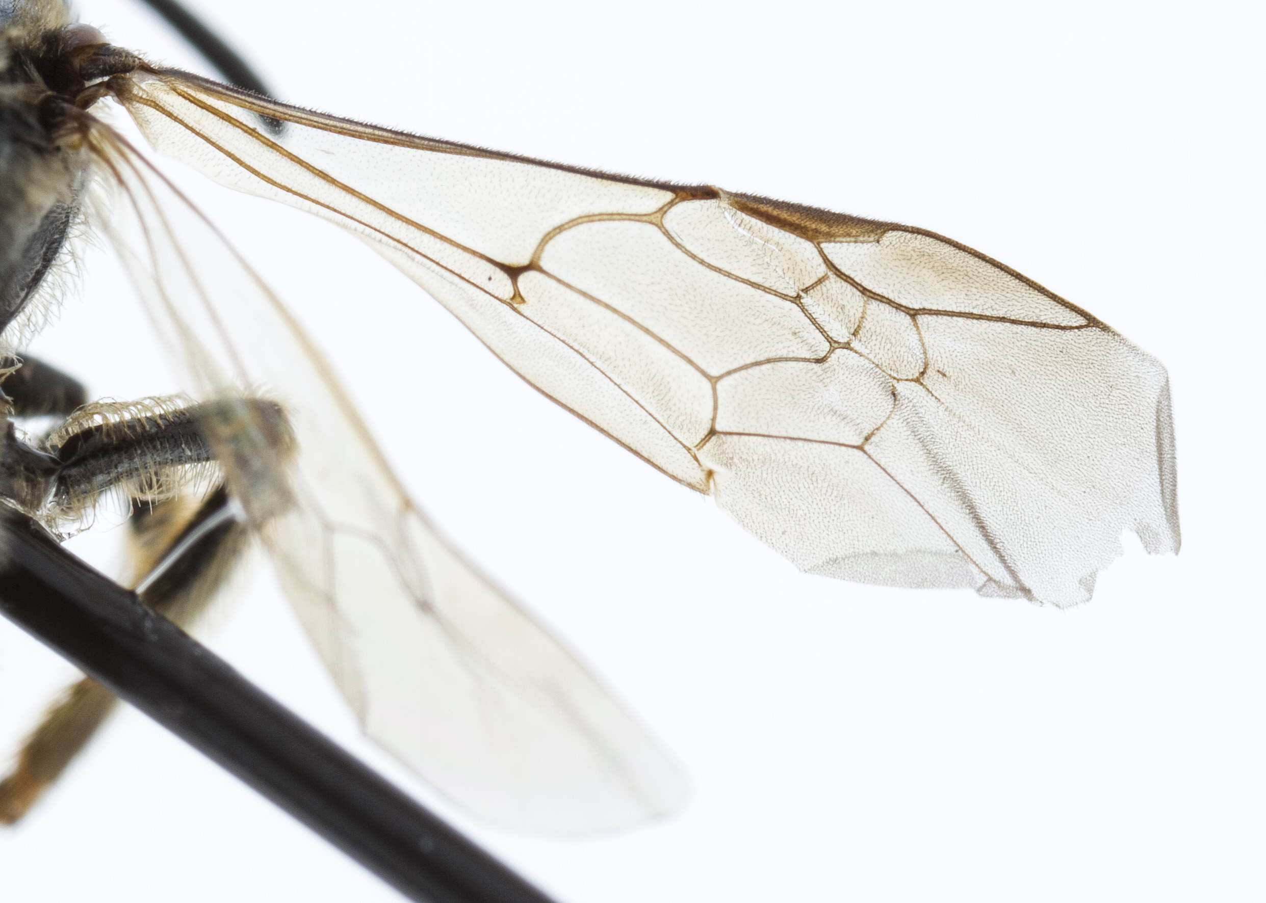 Lasioglossum cf Dialictus 2 F. Specimen ID: 0241. Sex: Female. Size: 7 mm. Collection Location: USA, WI, Bayfield County. Apostle Islands National Lake Shore. Boreal woodland along Mawike Road. WGS84 46.8874N/-91.0408W. Plot: AI-3. Collection Date: 17-Jul-2014. Collector: Brick M. Fevold. Halictidae; Halictinae; Halictini; Lasioglossum cf. subgenus Dialictus type #2. Detail of wing venation showing weakened outer vein of third submarginal cell.